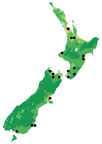 Map of New Zealand population density, showing location of Access Radio Network stations.